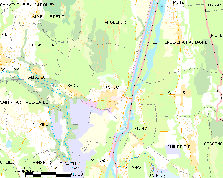 Map of French commune: Culoz Map commune FR insee code 01138.png